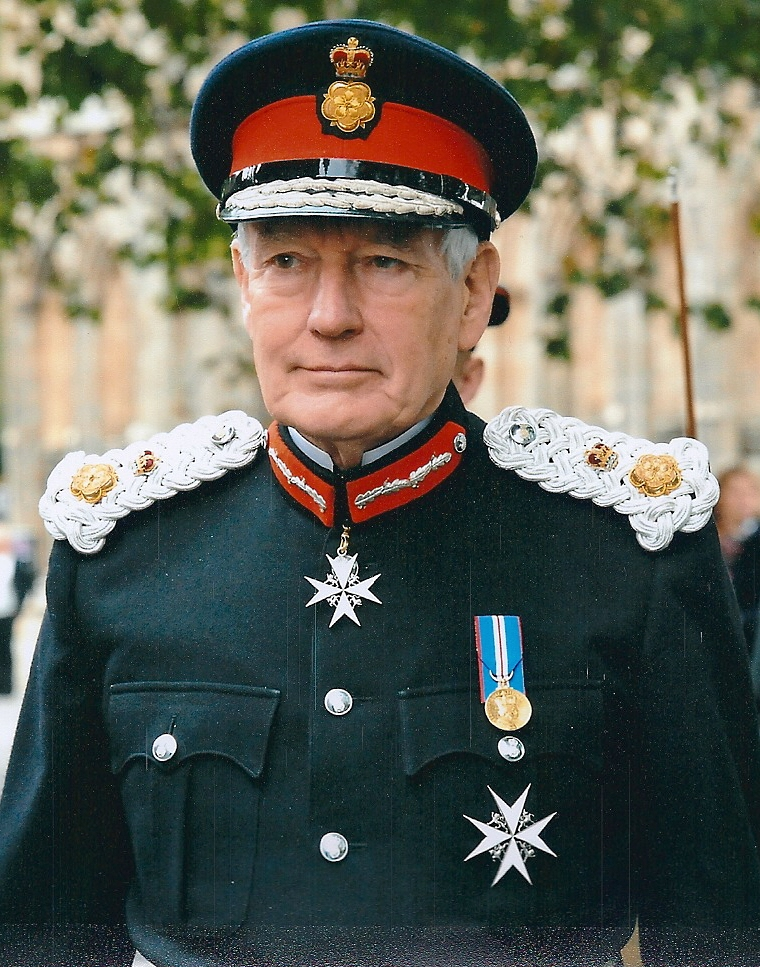 Lord Crathorne in Lord Lieutenant's Uniform. This is the preferred uniformed photograph of Lord Crathorne.